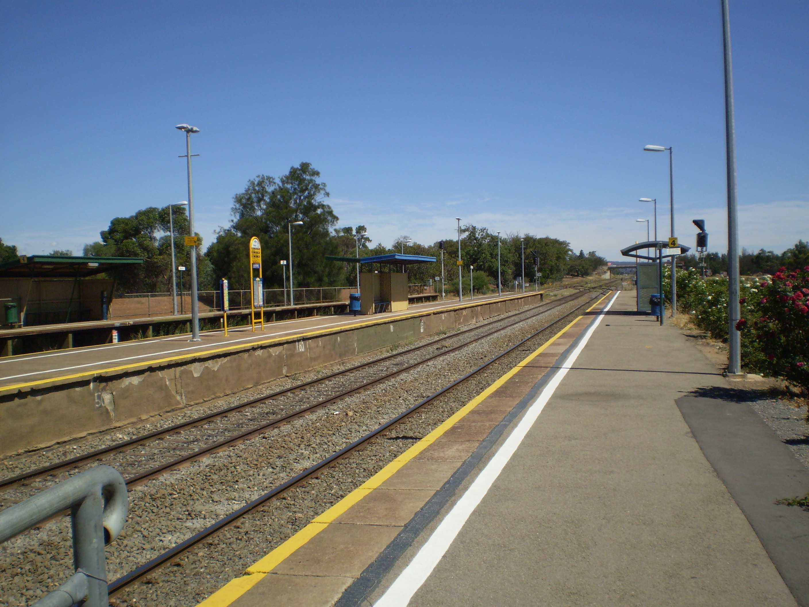 Mile End Railway Station in December 2007.